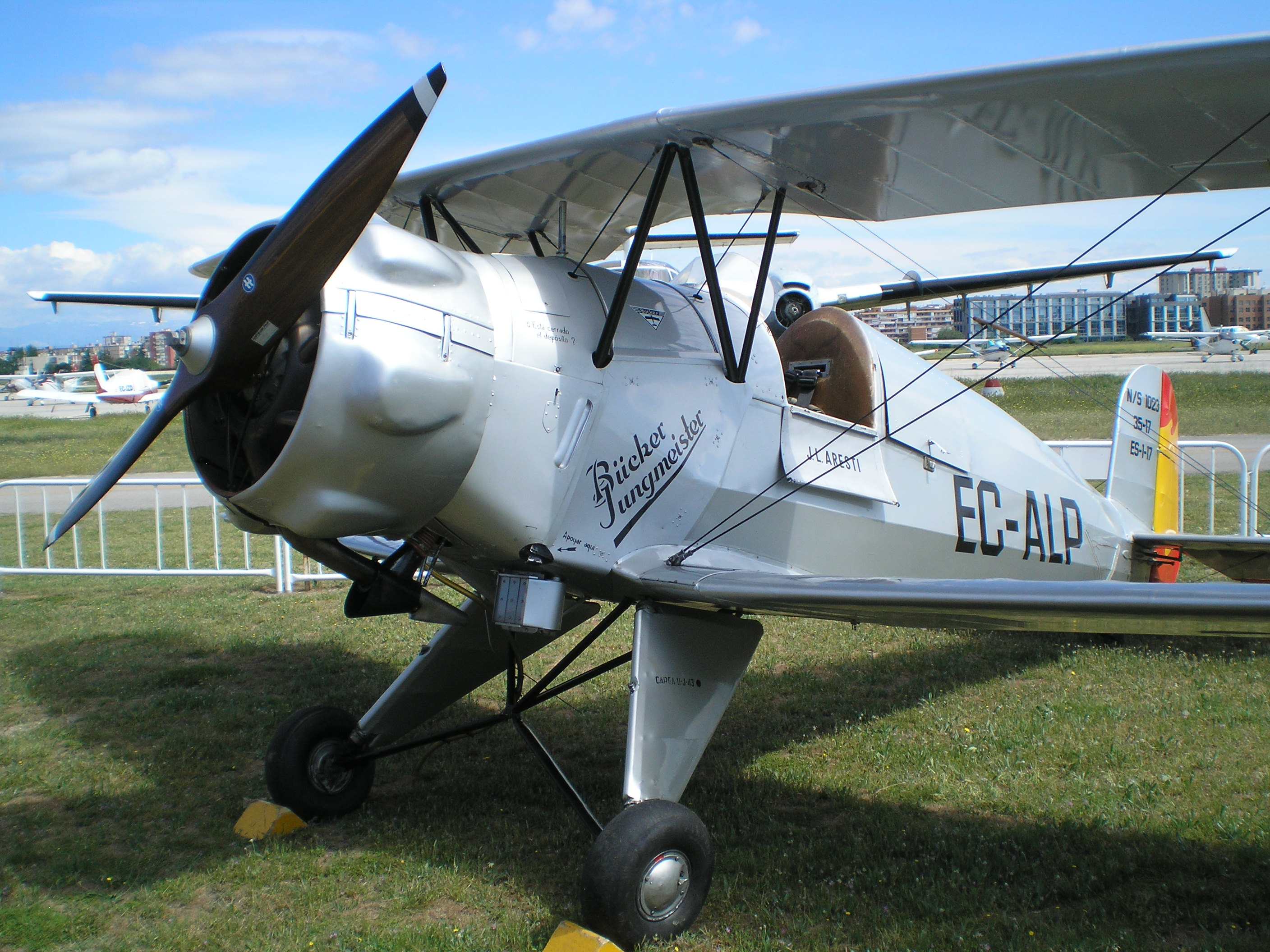 Bücker Bü 133 Jungmeister.